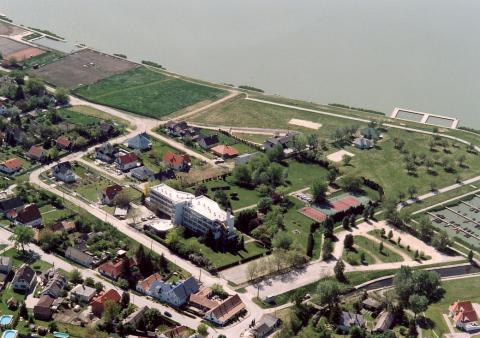 Velence, Hungary, aerialphotgraphy